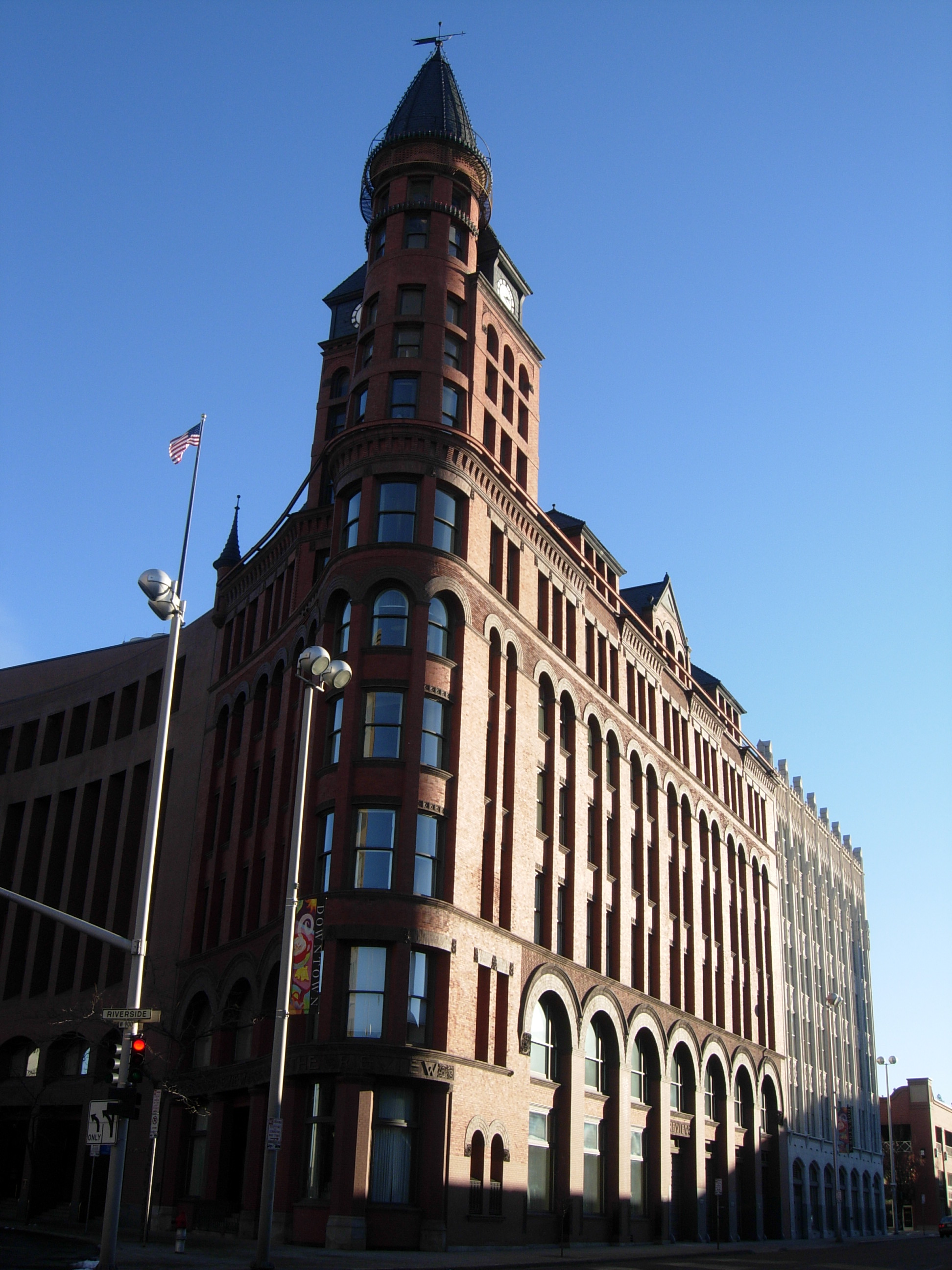 The Review Building in Spokane, Washington